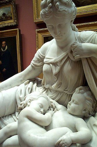 Leto with Chlidren